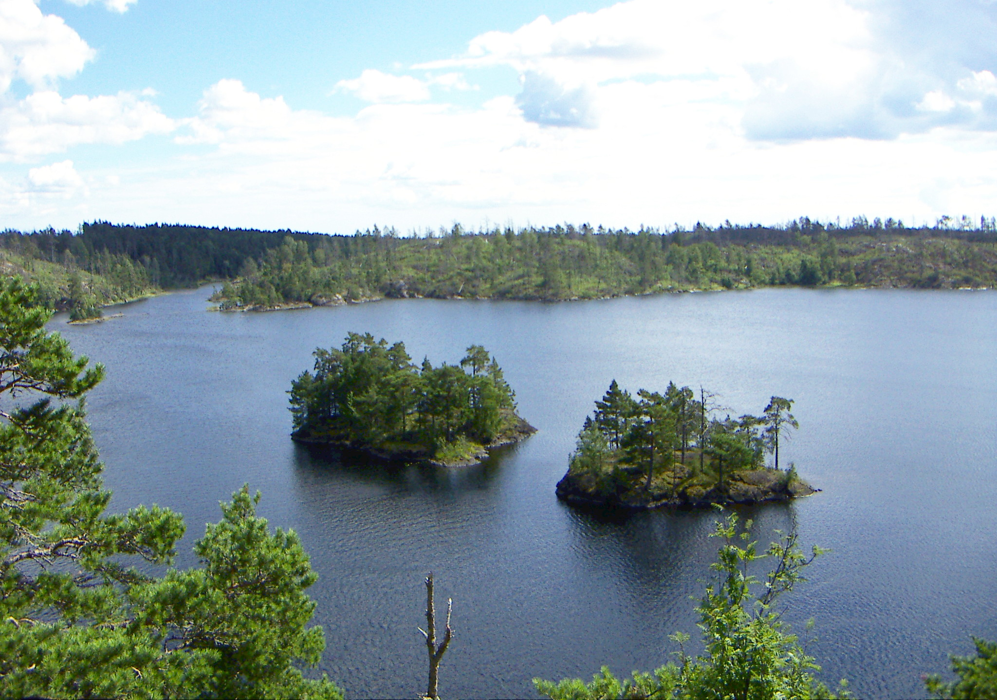 Lake Stensjön, Tyresta national park, Sweden. View from on top of Stensjöborg, a stone-age fortification. A part of the forest that was devastated in the 1999 fire can be seen on the other side of the lake.